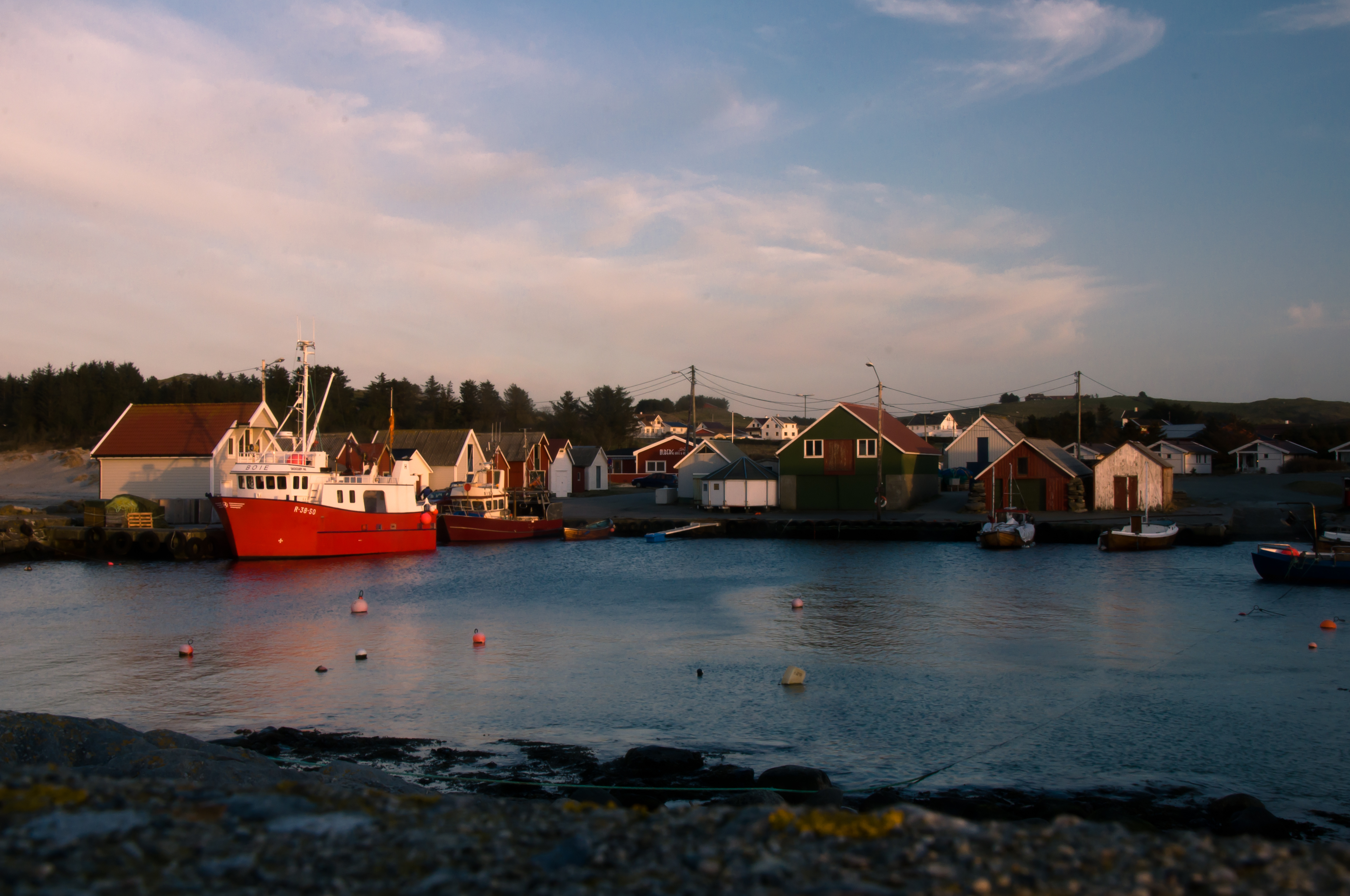 Taken during my photo-walk/ meet-up with Andrea Magugliani